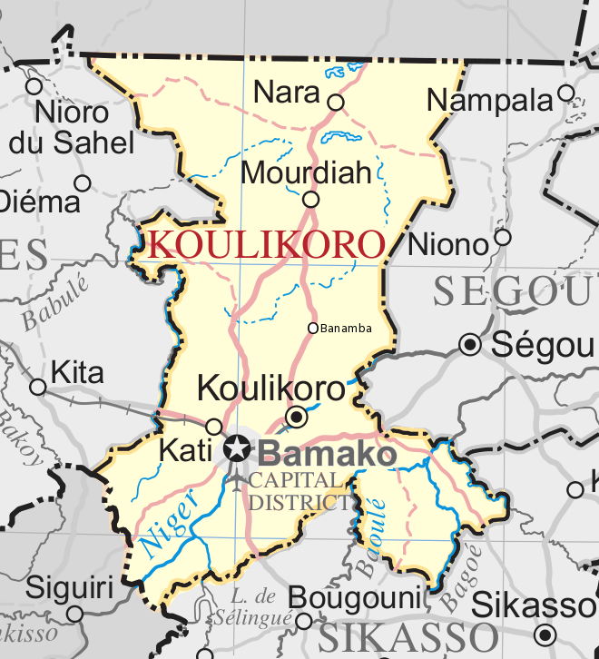 A map of the Koulikoro Region of Mali, derived from United Nations Cartography Section map Image:Un-mali.png